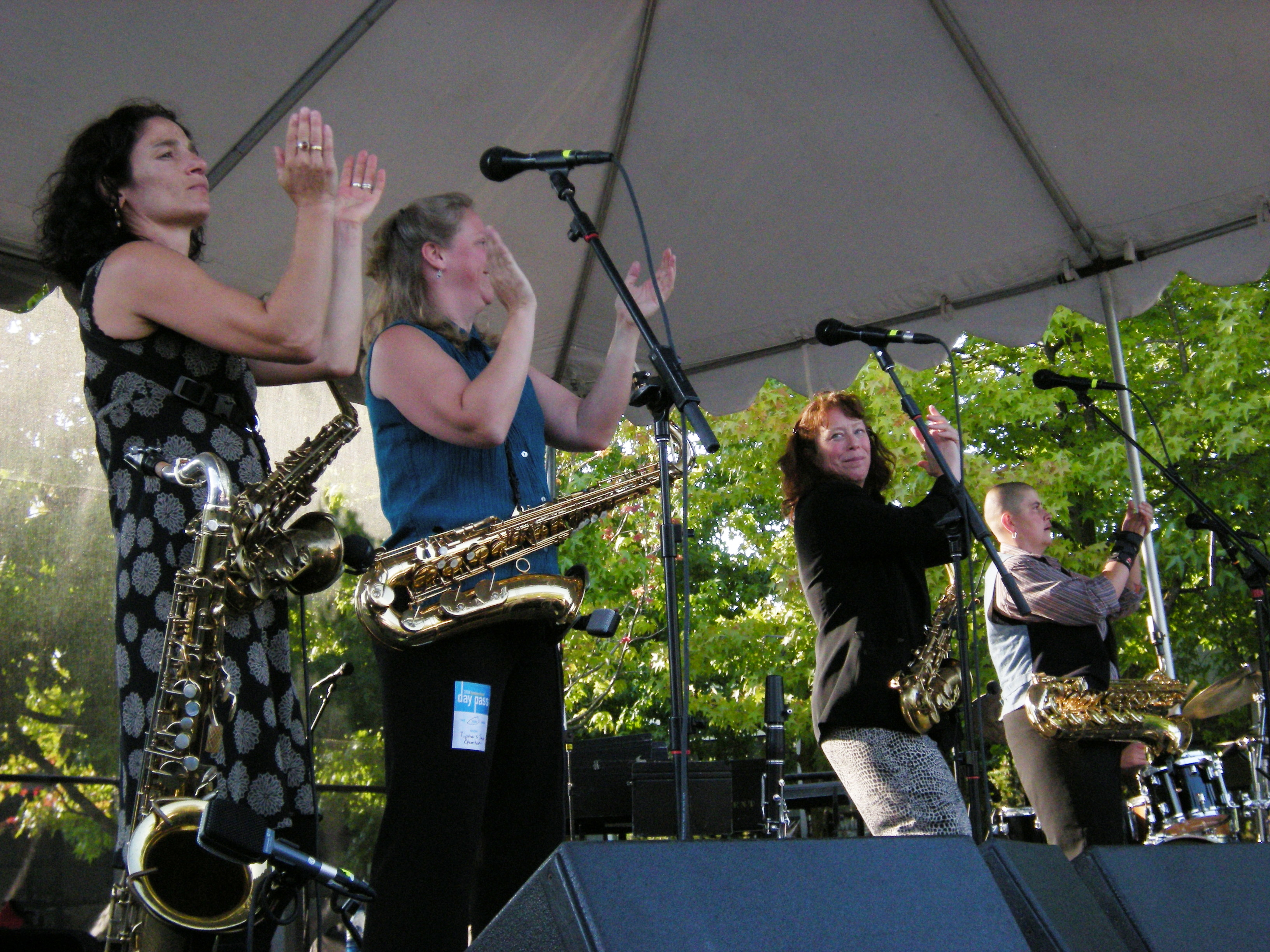 Billy Tipton Memorial Saxophone Quartet performing at Bumbershoot 2008, Seattle Center, Seattle, Washington. Left to right: Jessica Lurie, Sue Orfield, Amy Denio, Tina Richerson.